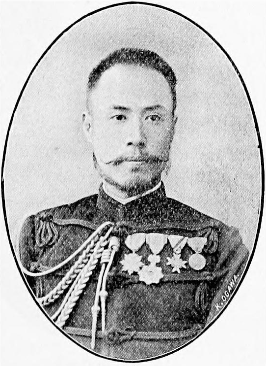 Major Yamaguchi Keizo